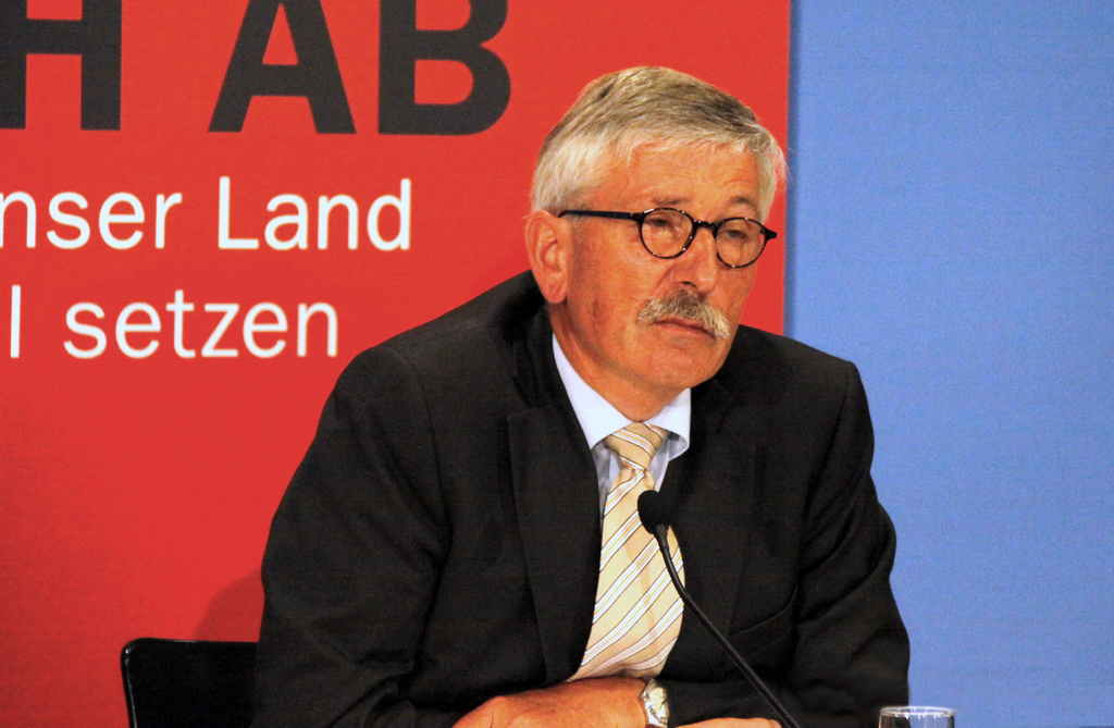 Thilo Sarrazin, at the presentation of his book "Deutschland schafft sich ab"